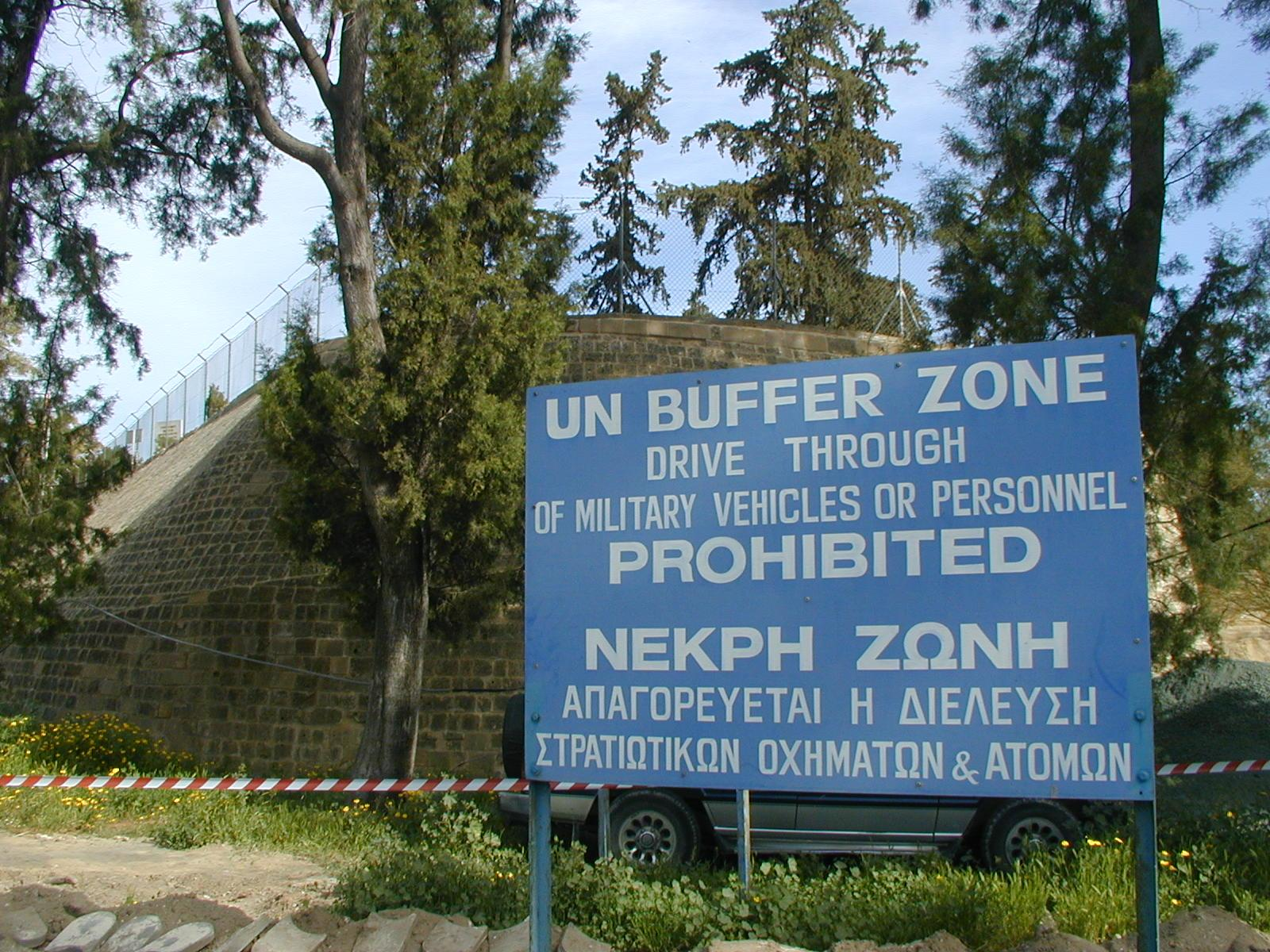 "UN Buffer Zone" warning sign on the south (Greek) side of the Ledra Crossing of the Green Line in Nicosia, Cyprus. The other side of the fence is the Turkish side.